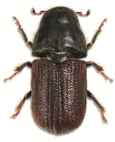 It shows the appearance of the Mountain pine beetle